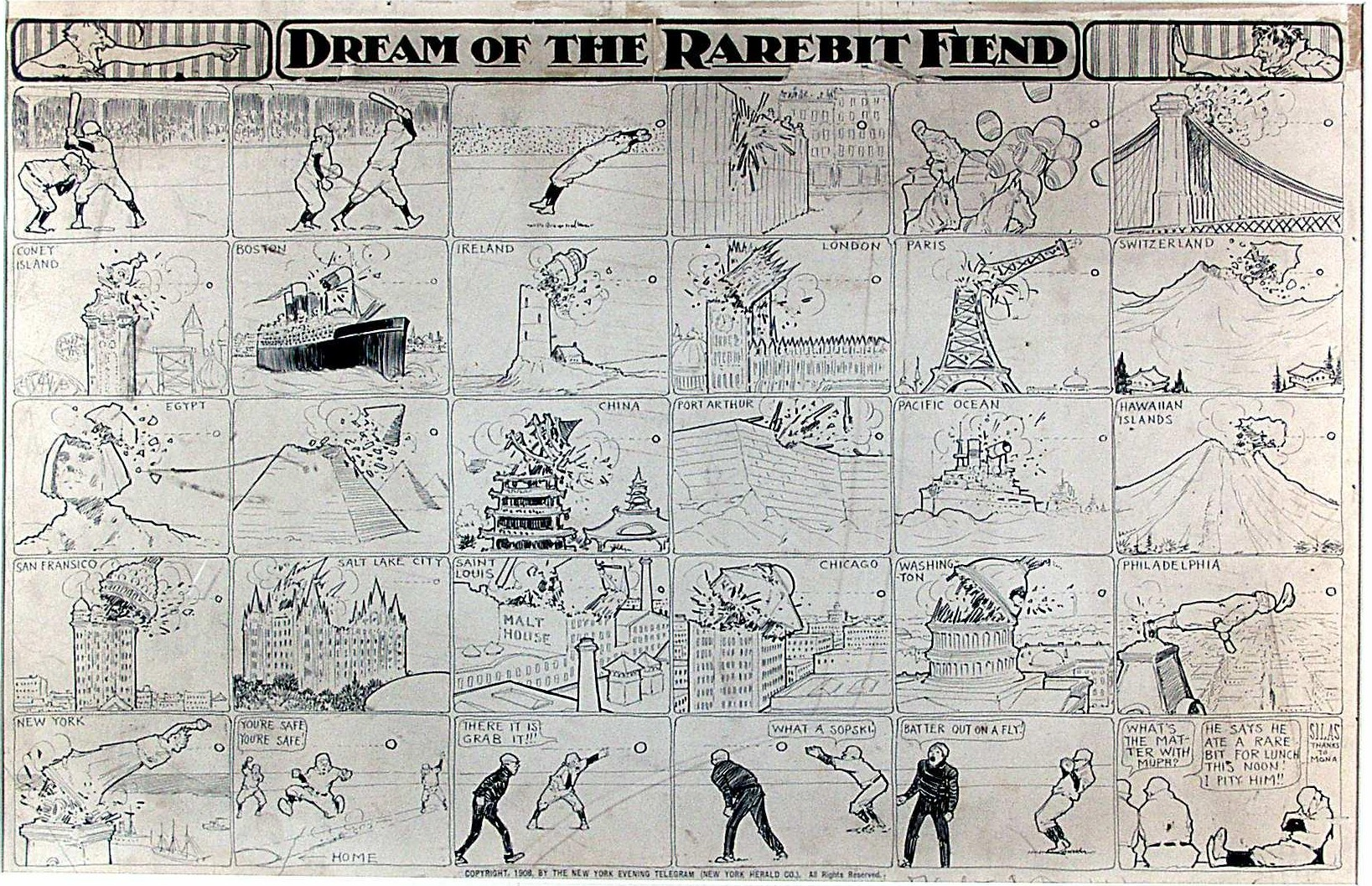 Dream of a Rarebit Fiend (1908)